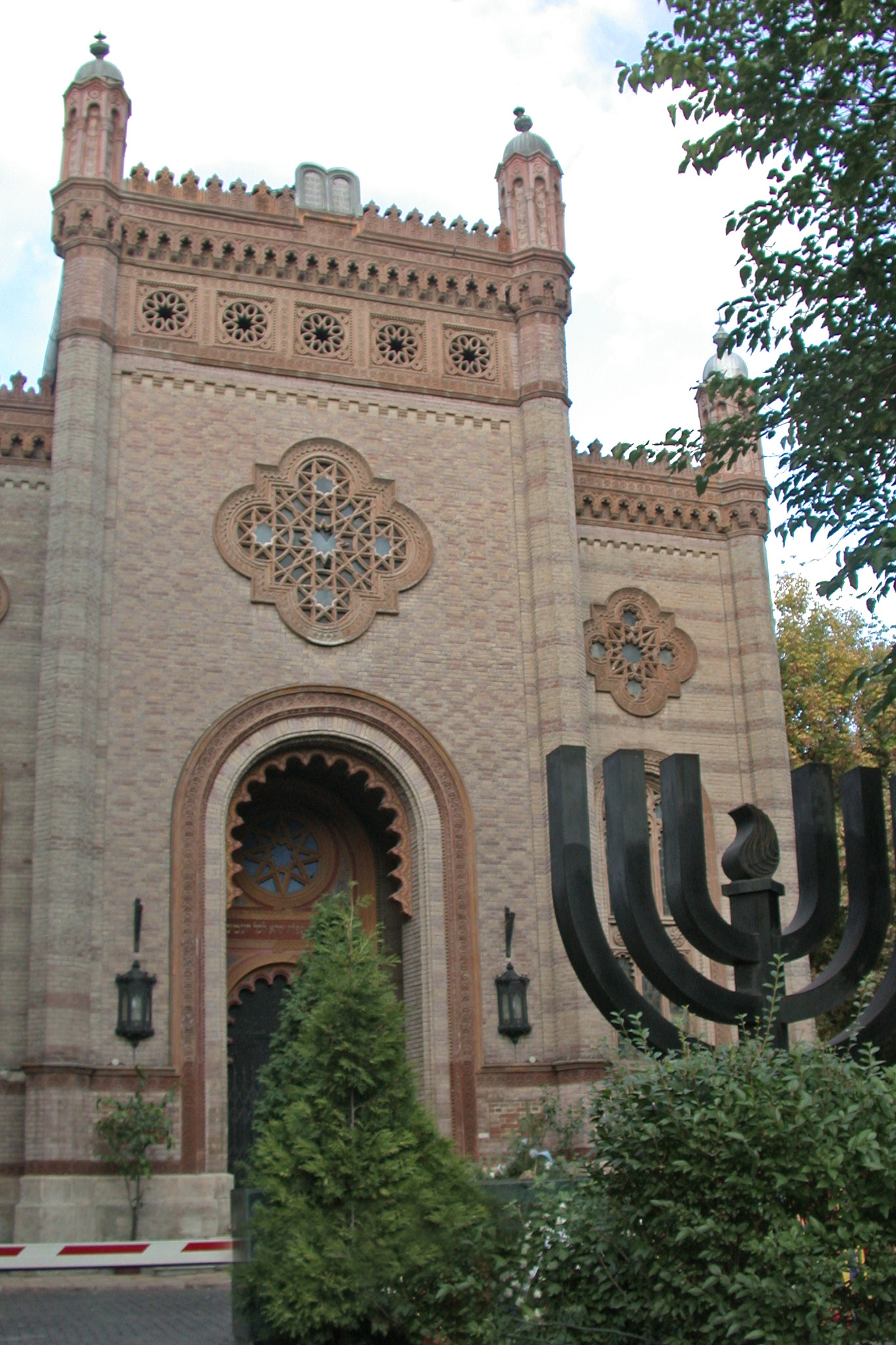 Bucarest's Synagogue